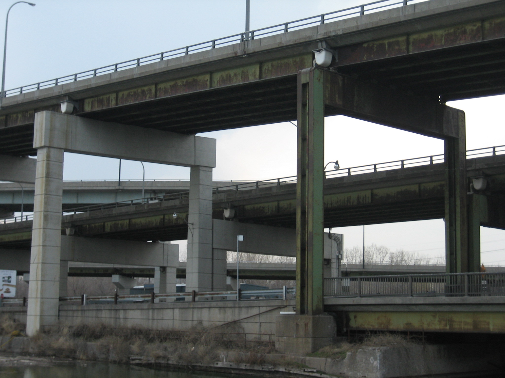 Eastern edge of the Gardiner Expressway